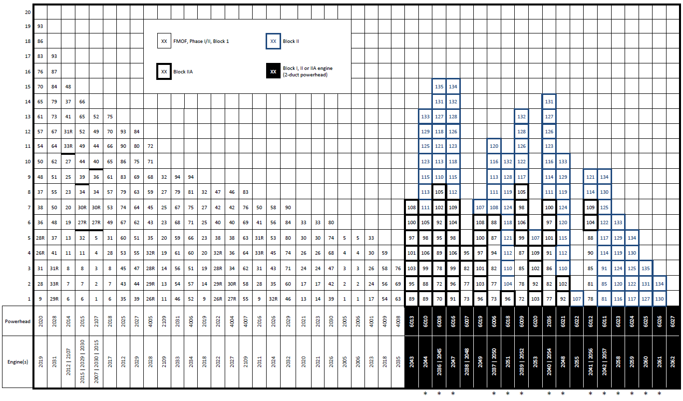 A chart depicting the flight history of the 47 RS-25 engines used during the Space Shuttle programme. The numbering system is the KSC system, which is sometimes different to the usual "STS" numbering – for instance, "33" on this chart refers to STS-51L. Asterisks (*) indicate an engine that was part of the active SSME fleet at the conclusion of the Space Shuttle programme.